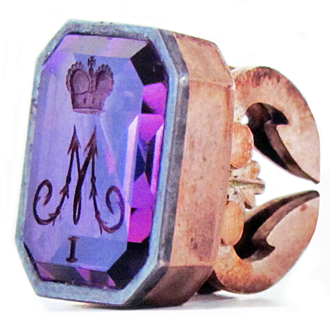 Seal of king Milan Obrenovic (Historical Museum of Serbia, Belgrade)